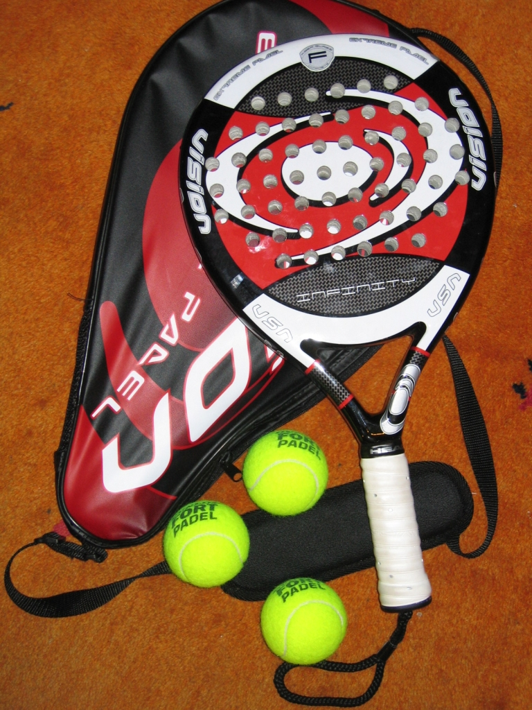 This photo I have taken with my Canon Ixus 500 and it shows my Pádel raquet.